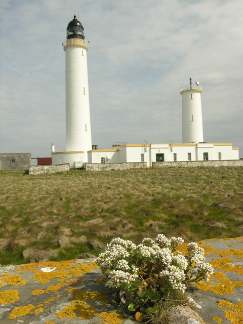 Muckle Skerry Lighthouse Muckle Skerry lighthouse seen from the perimeter wall. Completed in 1794, it was the first lighthouse built by Robert Stevenson and T Smith. It originally consisted of two light towers but this was changed to a more powerful single light in 1895. The main lighthouse is 36 metres high. It became automated in 1994.